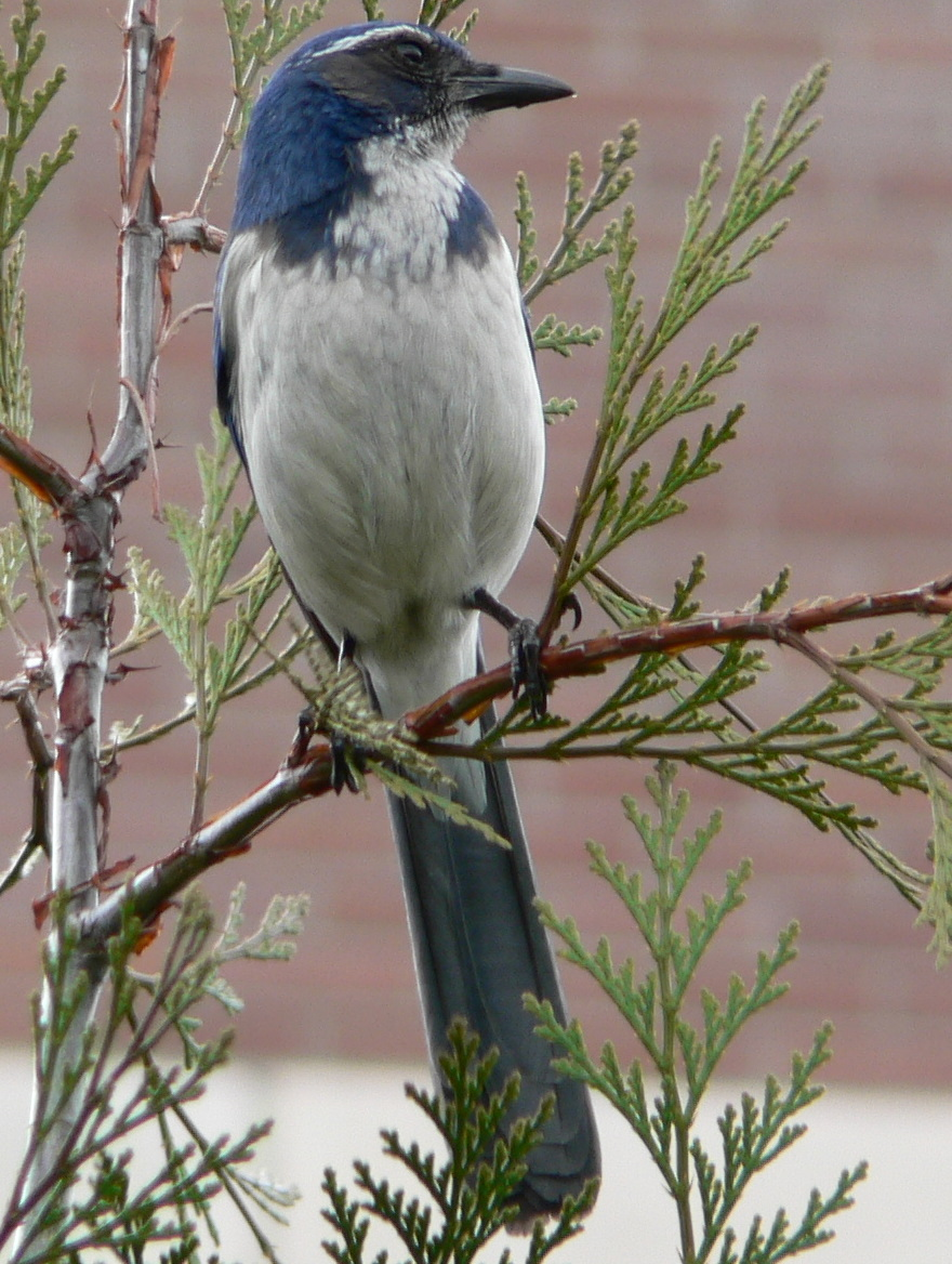 Western Scrub Jay